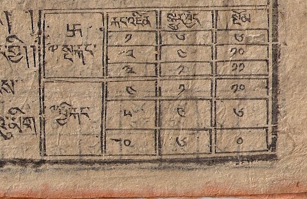 Chart of the Tibetan equation of the sun from a Tibetan blockprint (1918)